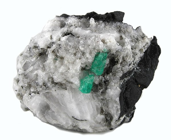 Beryl (Var.: Emerald), Calcite Locality: Chivor Mine, Chivor, Guavió-Guatéque Mining District, Boyacá Department, Colombia (Locality at ) Two gemmy, very bright and pretty emerald crystals, on a constrasting light gray calcite matrix. Each crystal is terminated on one of its ends. One crystal measures 0.9 cm, the other is 0.5 cm. They really jump out on the matrix with their fine grass-green color! 7.6 x 6.1 x 4.1 cm